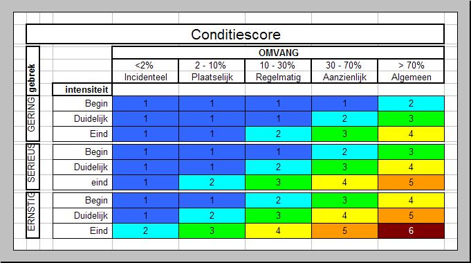 score card for the calculation of the condition of building element in the Netherlands.